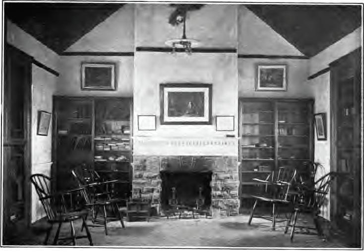 Interior of the Old Eagle School after renovation as it appeared in 1909